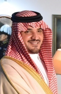 Abdulaziz bin Saud bin Nayef bin Abdulaziz Al Saud, Minister of Interior of Saudi Arabia at a meeting with Danny Faure, President of Seychelles